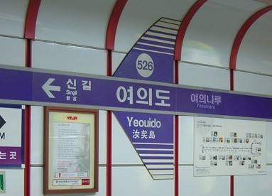 Yeouido Station